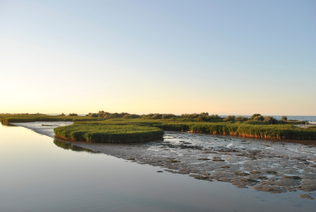 Delta of the Po River, Boccasette Porto Tolle (Rovigo)